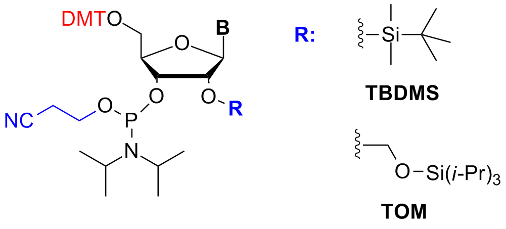 Ribonucleoside phosphoramidites